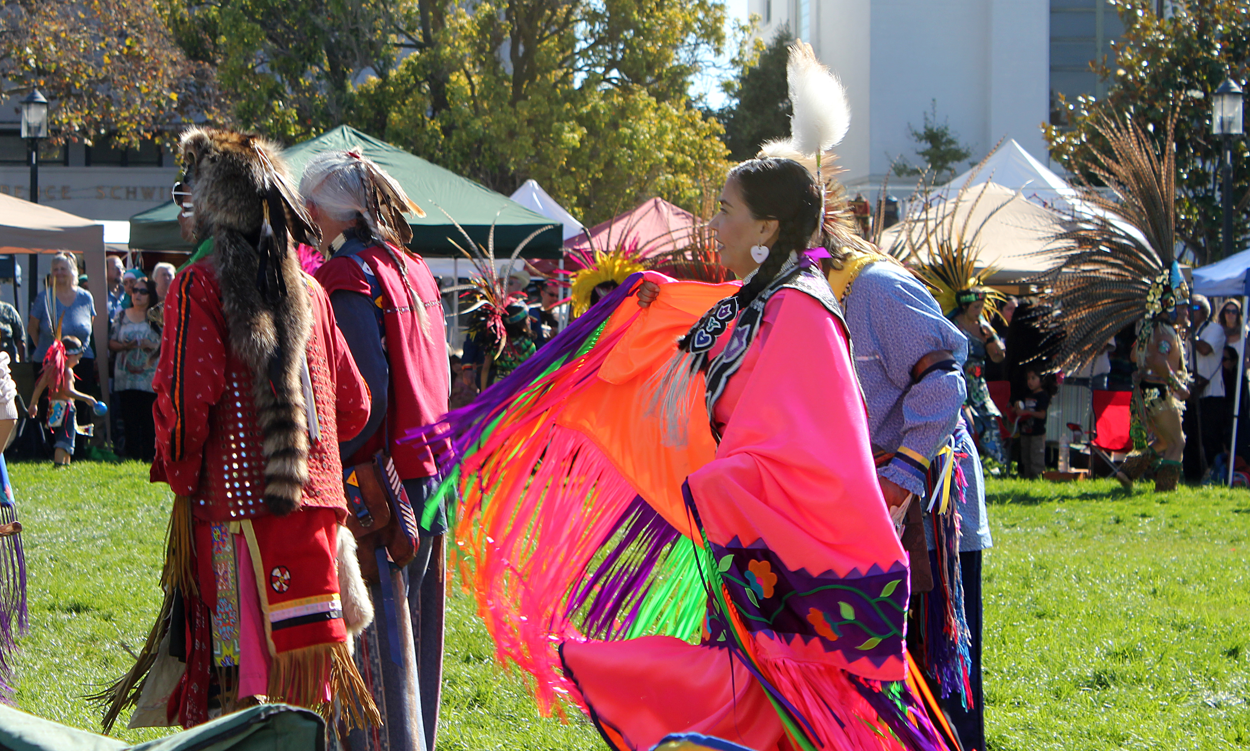 We serendipitously stumbled across Berkeley's alternative to Columbus Day celebrations.